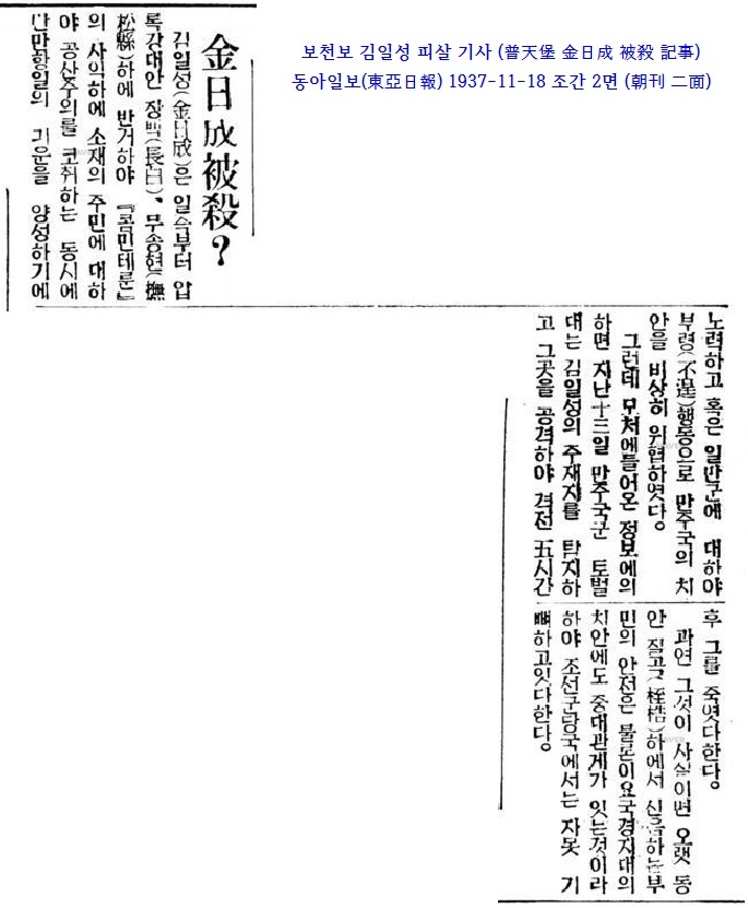 Dong-a Ilbo article reporting that Kim Il Sung, who attacked Pochonbo village on June 4, 1937, had been killed on November 13, 1937.